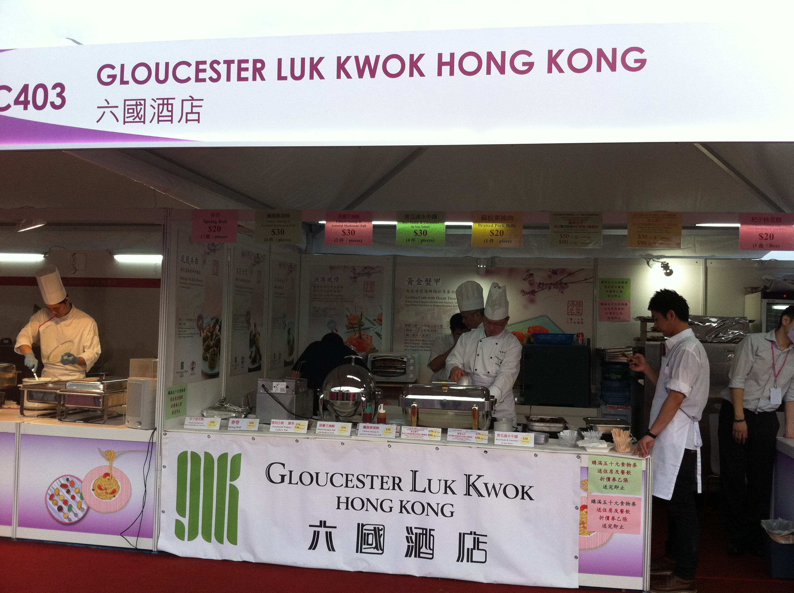 Hong Kong Wine and Dine Festival, 2012 香港美酒佳餚巡禮, West Kowloon Waterfront Promenade, Hong Kong